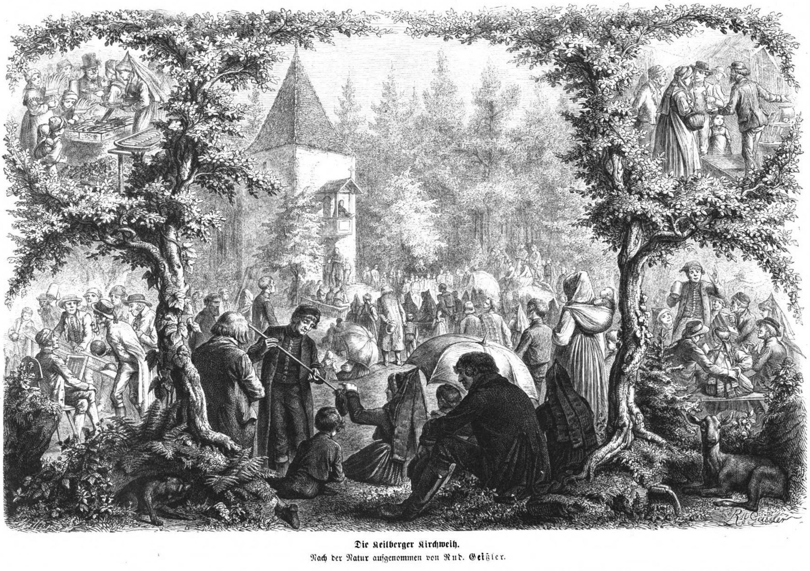 caption: "Die Keilberger Kirchweih.Nach der Natur aufgenommen von Rud. Geißler."